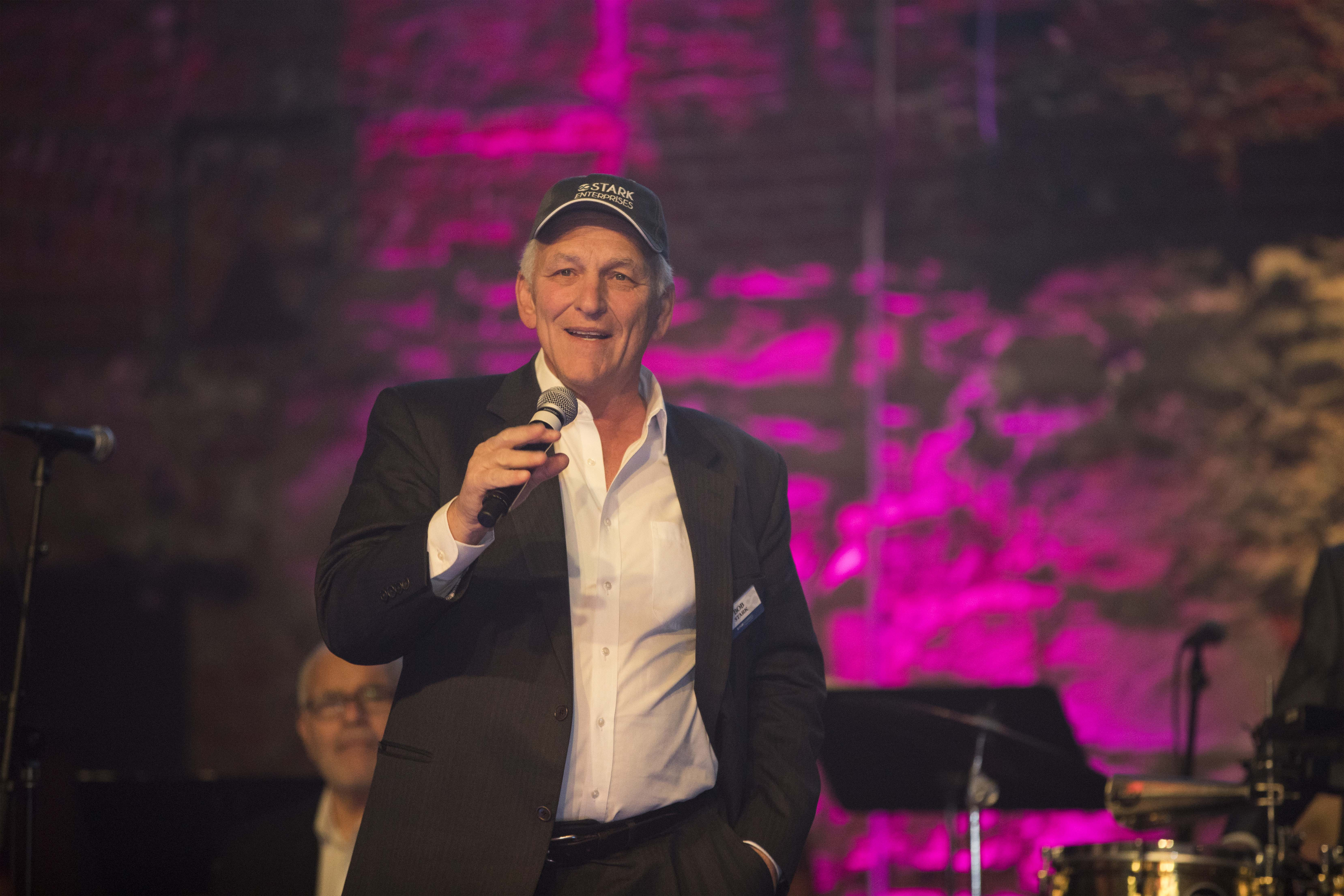 Speaking at TENK in Cleveland, Ohio at Stark Enterprises' Investor Appreciation Event.